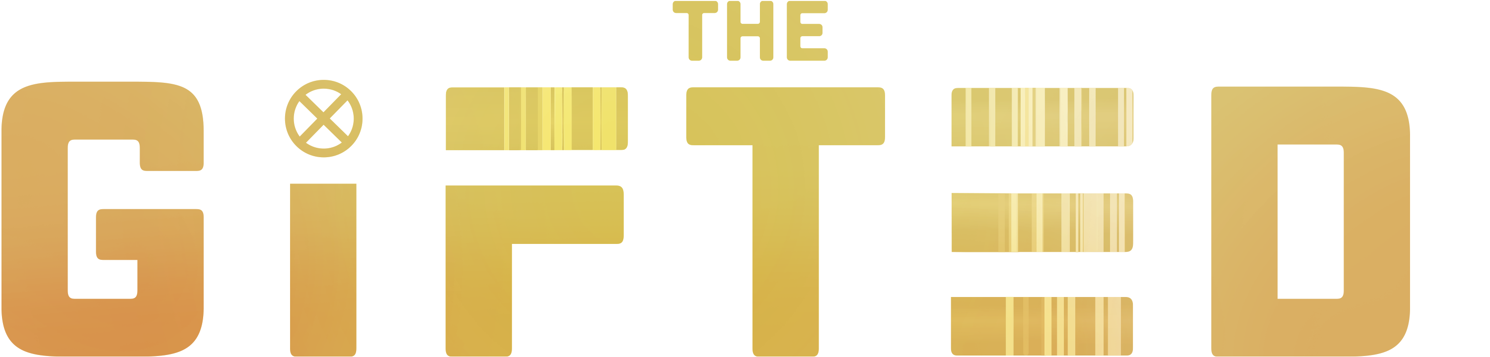 Logo of The Gifted